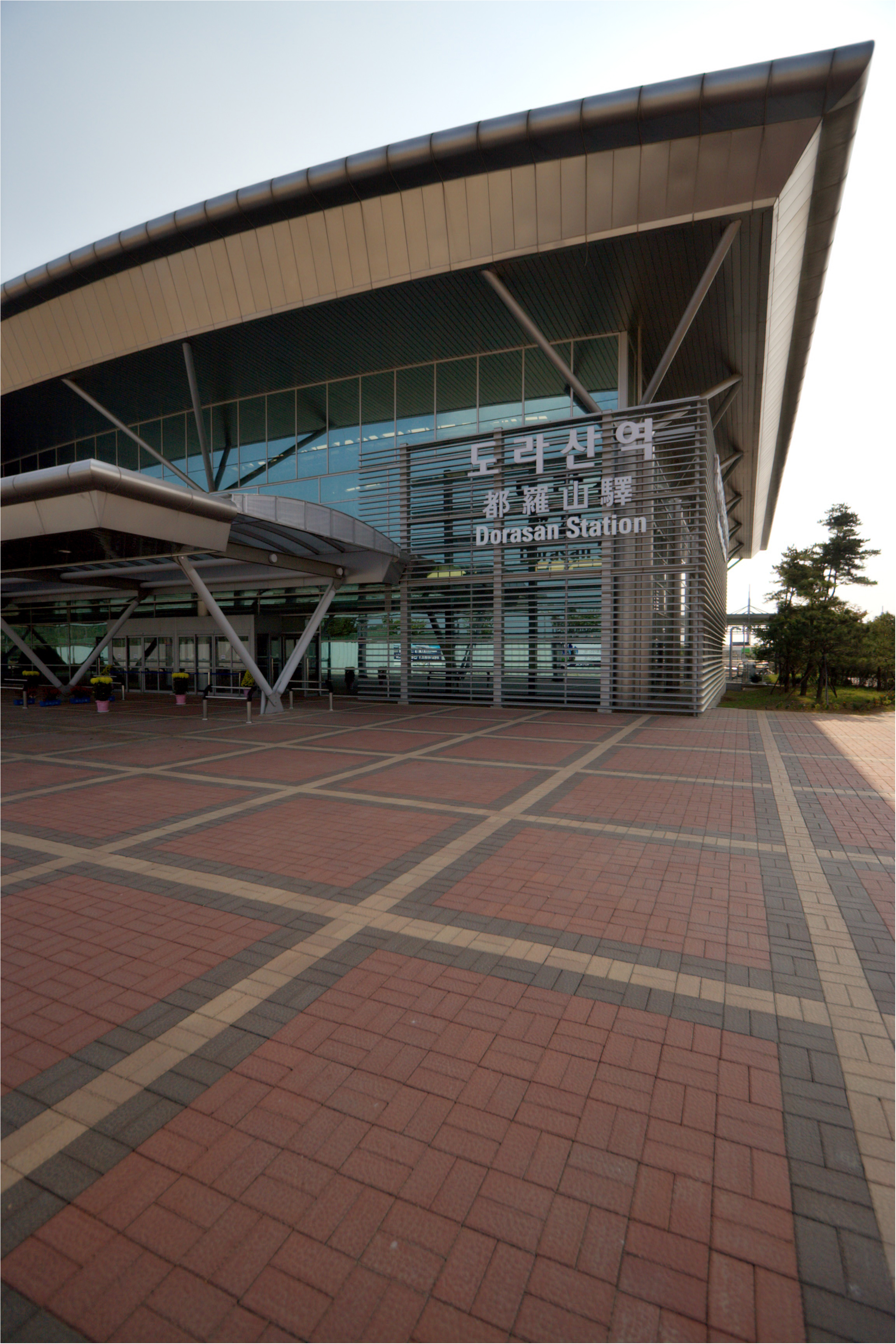 Dorasan station, the railroad station on the border between North and South Korea that will become a stop on the Pan-asian Railway